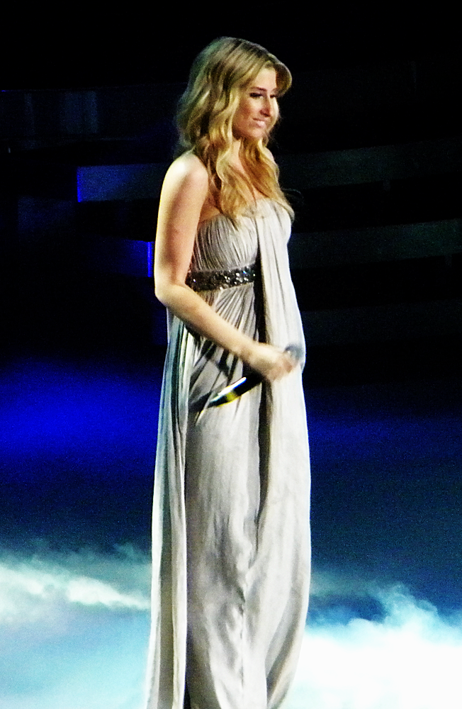 Stacey Solomon performing at the O2 Arena in London as part of The X Factor 2010 tour, on the 20th of March.